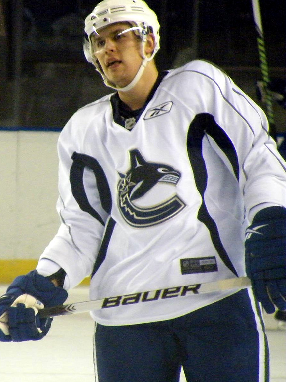 Vancouver Canucks forward Sergei Shirokov during training camp in 2009.